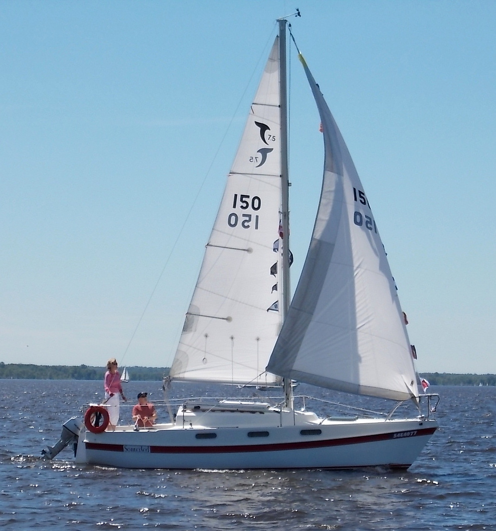 Tanzer 7.5 sailboat on Lac Deschênes, Ottawa River, Ottawa, Ontario, Canada.